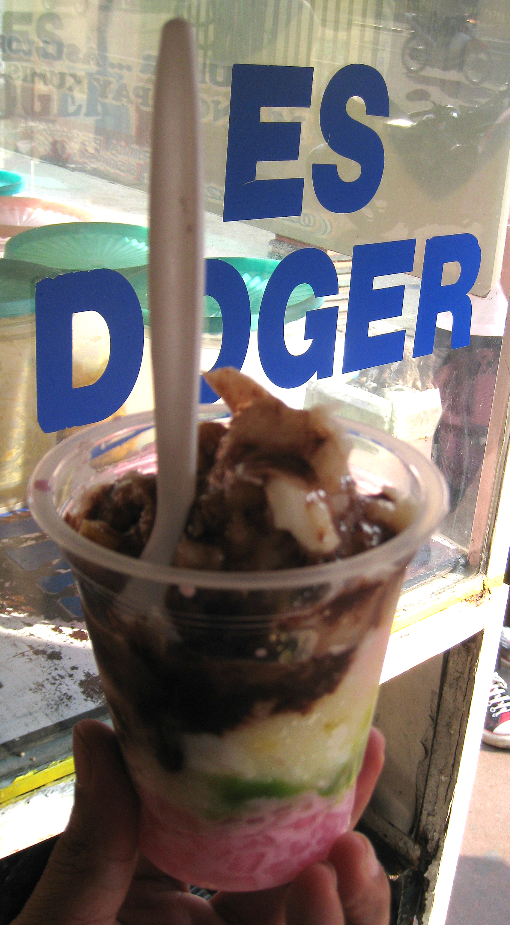 A cup of es doger; coconut milk ice in pink syrup with pacar cina merah delima (red tapioca pearls), avocado, cassava tapai, ketan hitam (black glutinous rice) tapai, jackfruit, and chocolate condensed milk. Es doger is coconut milk base ice with pinkish color from rozen (rose) syrup or cocopandan syrup. Specialty of Bandung, West Java.